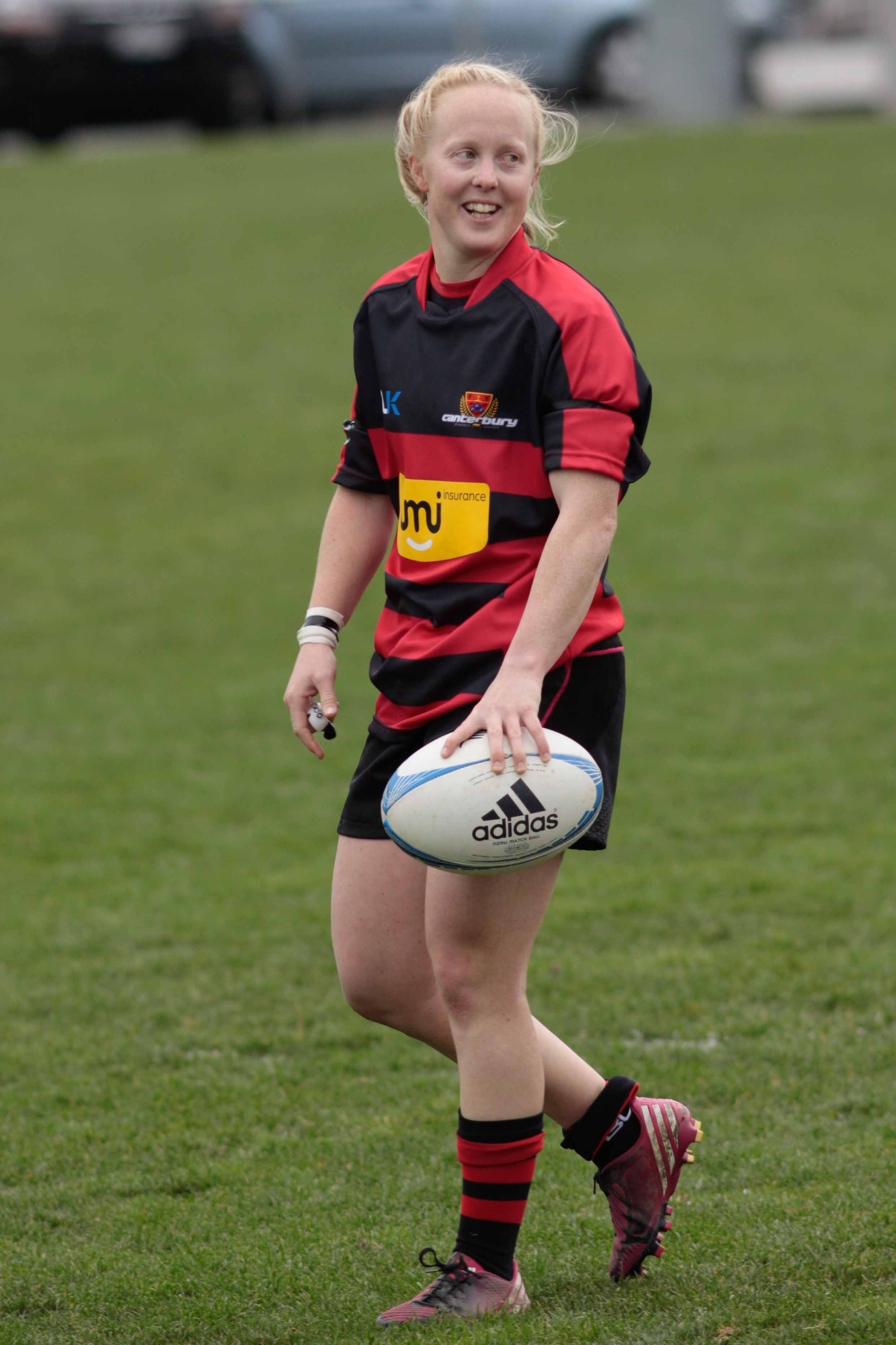 Kendra Cocksedge 15 Sep 2012. Rugby Park, Christchurch, NZ Women's NPC, Canterbury vs Otago.